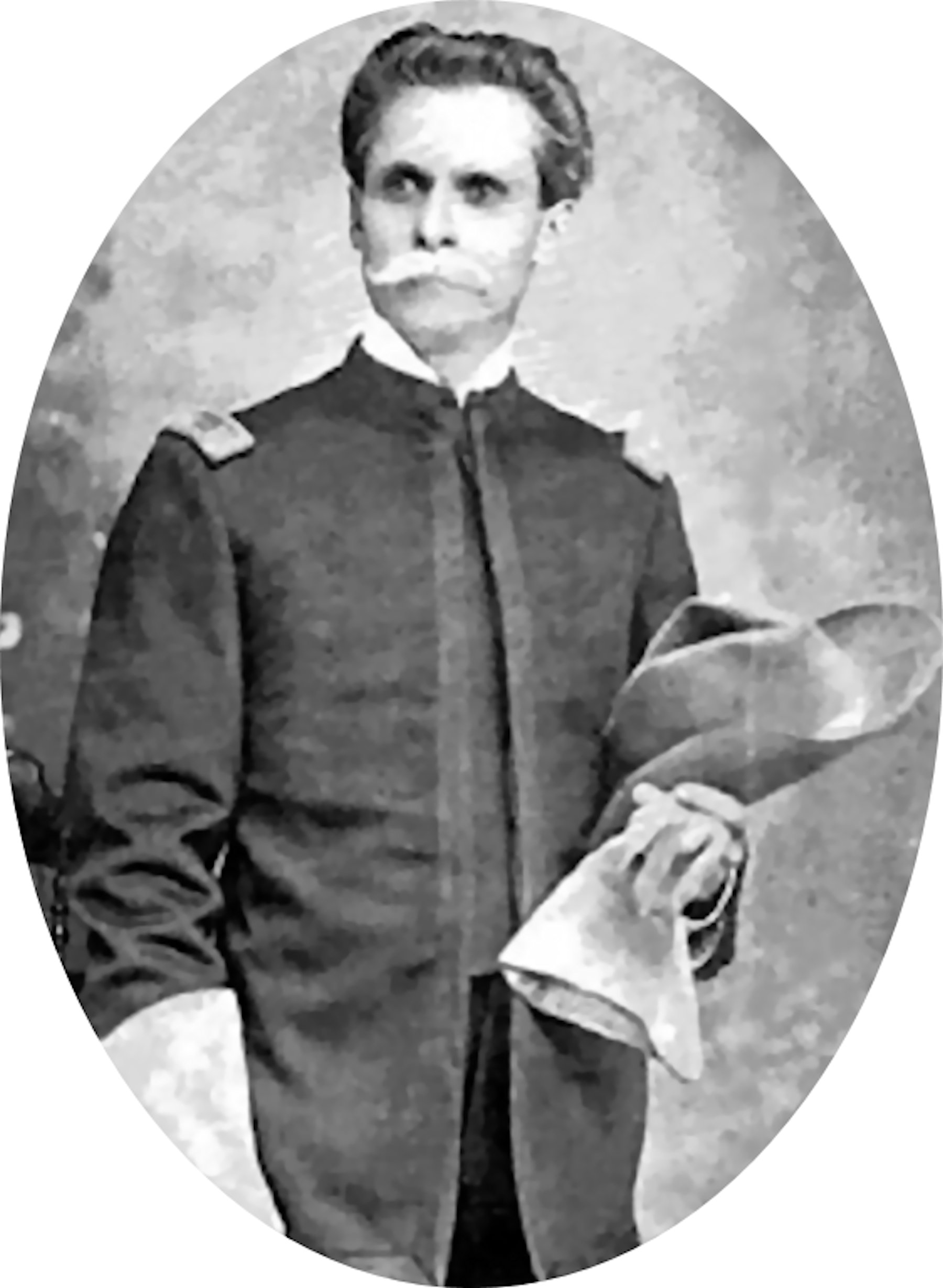 Medal of Honor winner Henry Jeremiah Parks